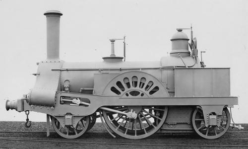 Photograph of an LNWR 6ft 2-2-2 engine